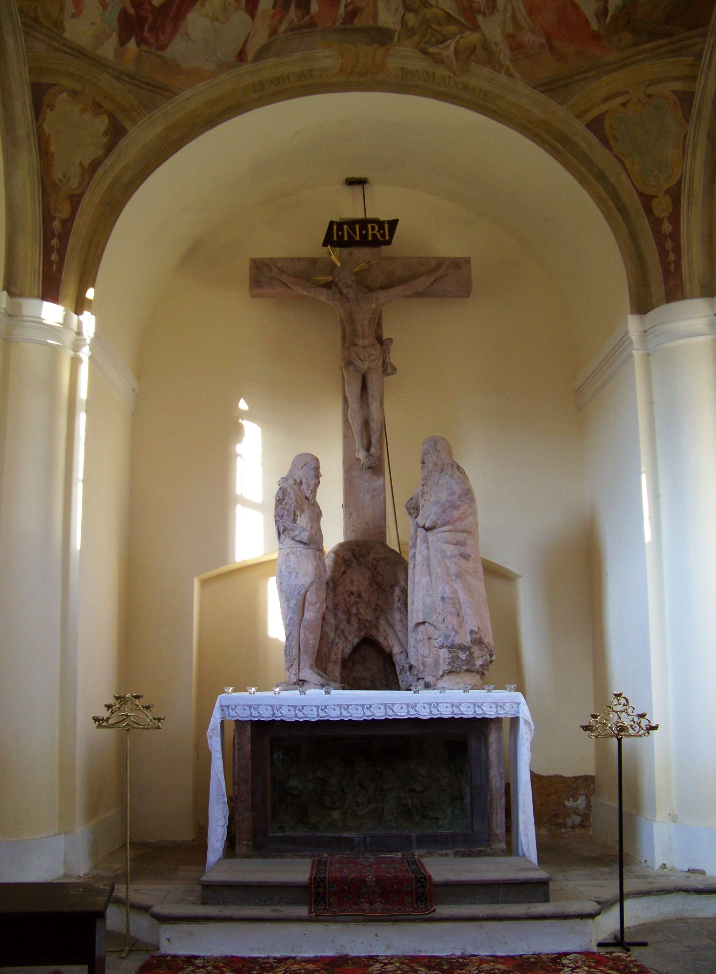 Svatý Jan pod Skalou, Beroun District, Central Bohemian Region, the Czech Republic. A Saint Cross chapel, interior.